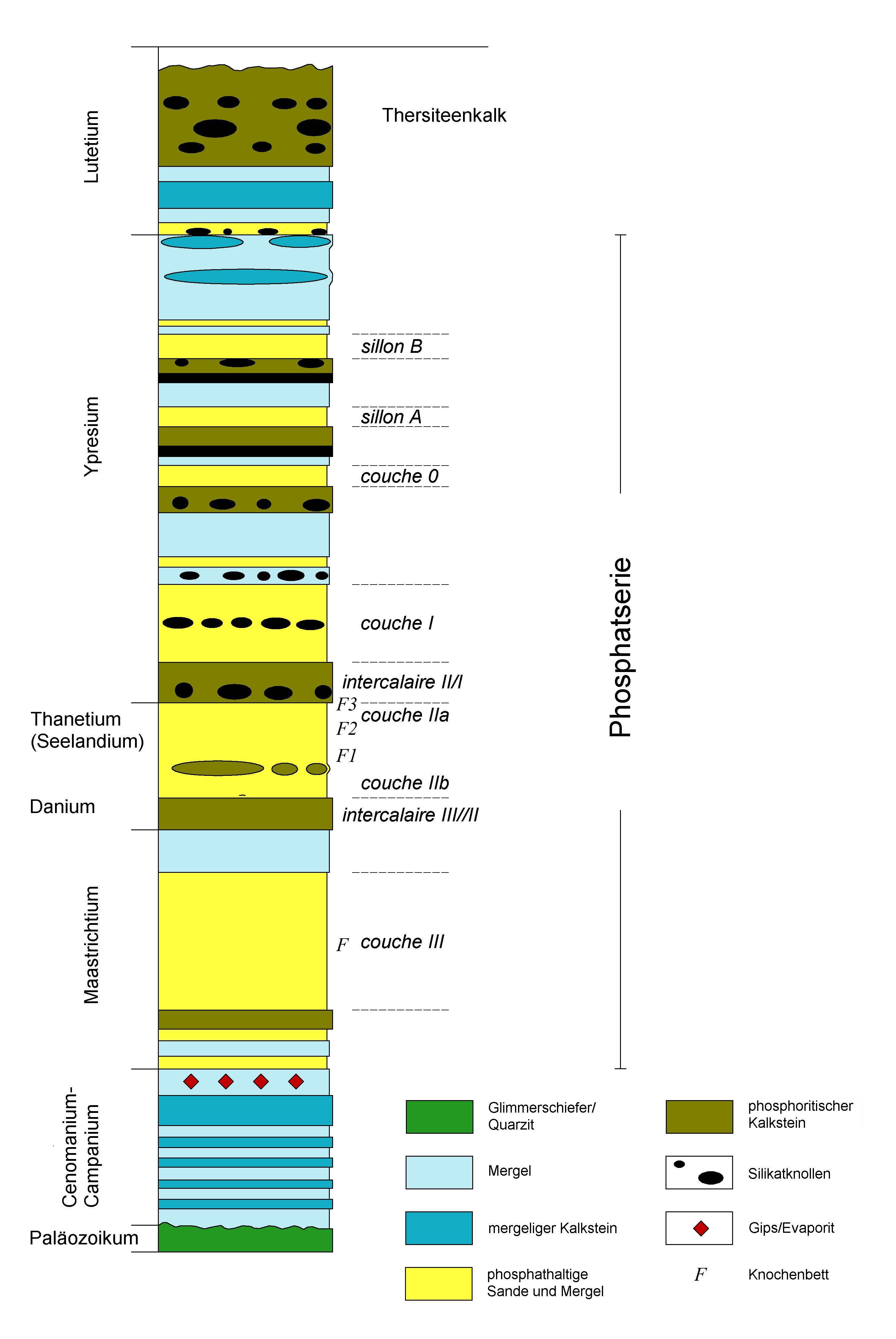 Geological section of the Grand Daoui, Ouled Abdoun basin, Central Morocco, Cretaceous-Paleogene, redrawn after: Emmanuel Gheerbrant, Jean Sudre, Henri Cappetta, Cécile Mourer-Chauviré, Estelle Bourdon, Mohamed Iarochene, Mbarek Amaghzaz and Baâdi Bouya: Les localités à mammifères des carrières de Grand Daoui, bassin des Ouled Abdoun, Maroc, Yprésien: premier état des lieux. Bulletin de la Societe Geologique de France 174 (3), 2003, pp. 279–293 (fig. 2) und N. El Assel, A. Kchikach, C. Durlet, N. AlFedy, K. El Hariri, M. Charroud, M. Jaffal, E. Jourani and M. Amaghzaz: Mise en évidence d’un Sénonien gypseux sous la série phosphatée du bassin des Ouled Abdoun: Un nouveau point de départ pour l’origine des zones dérangées dans les mines à ciel ouvert de Khouribga, Maroc. Estudios Geológicos 69 (1), 2013, pp. 47–70 (fig. 2)